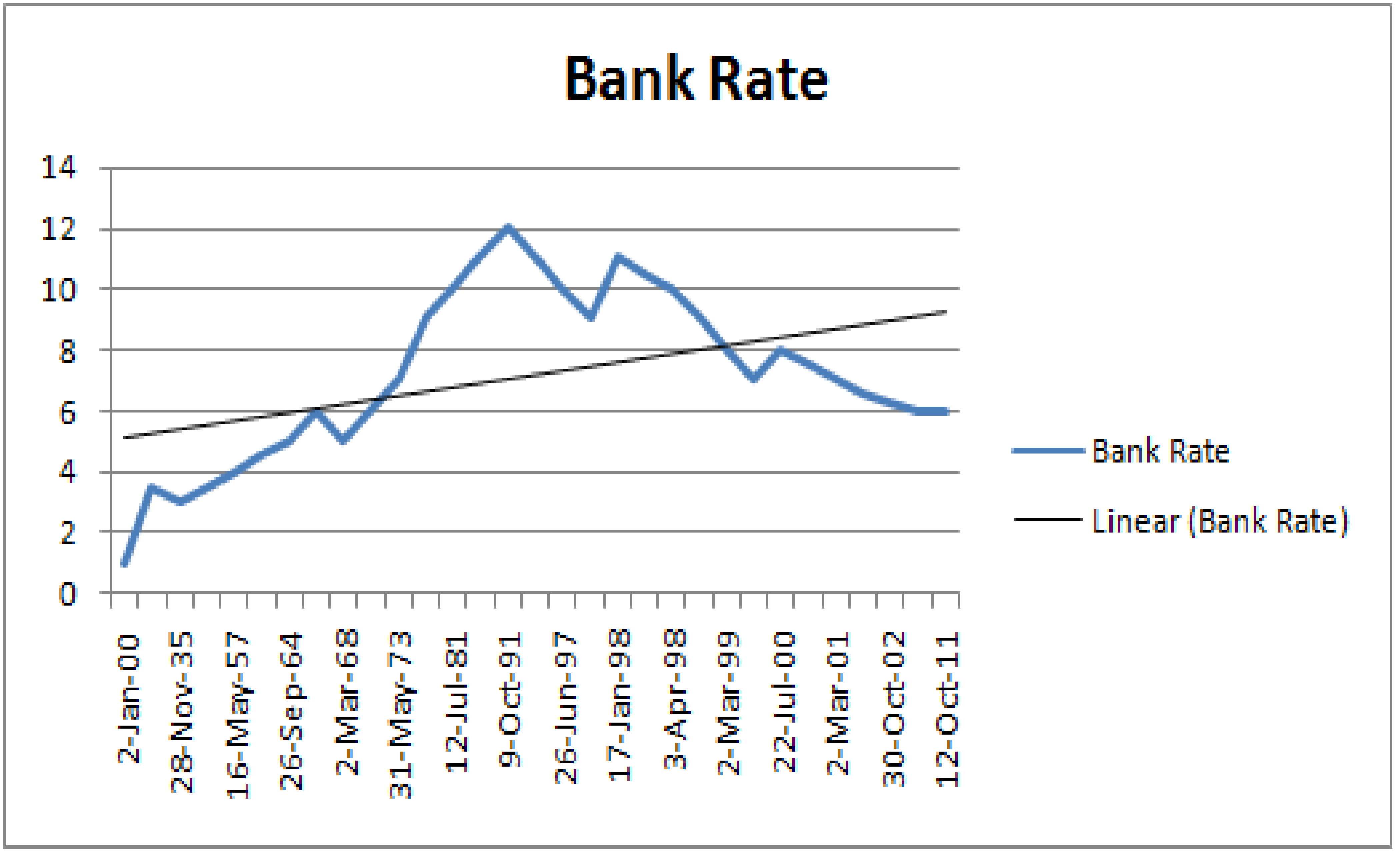 showing trend of bank rate from 1935- to present year 2011